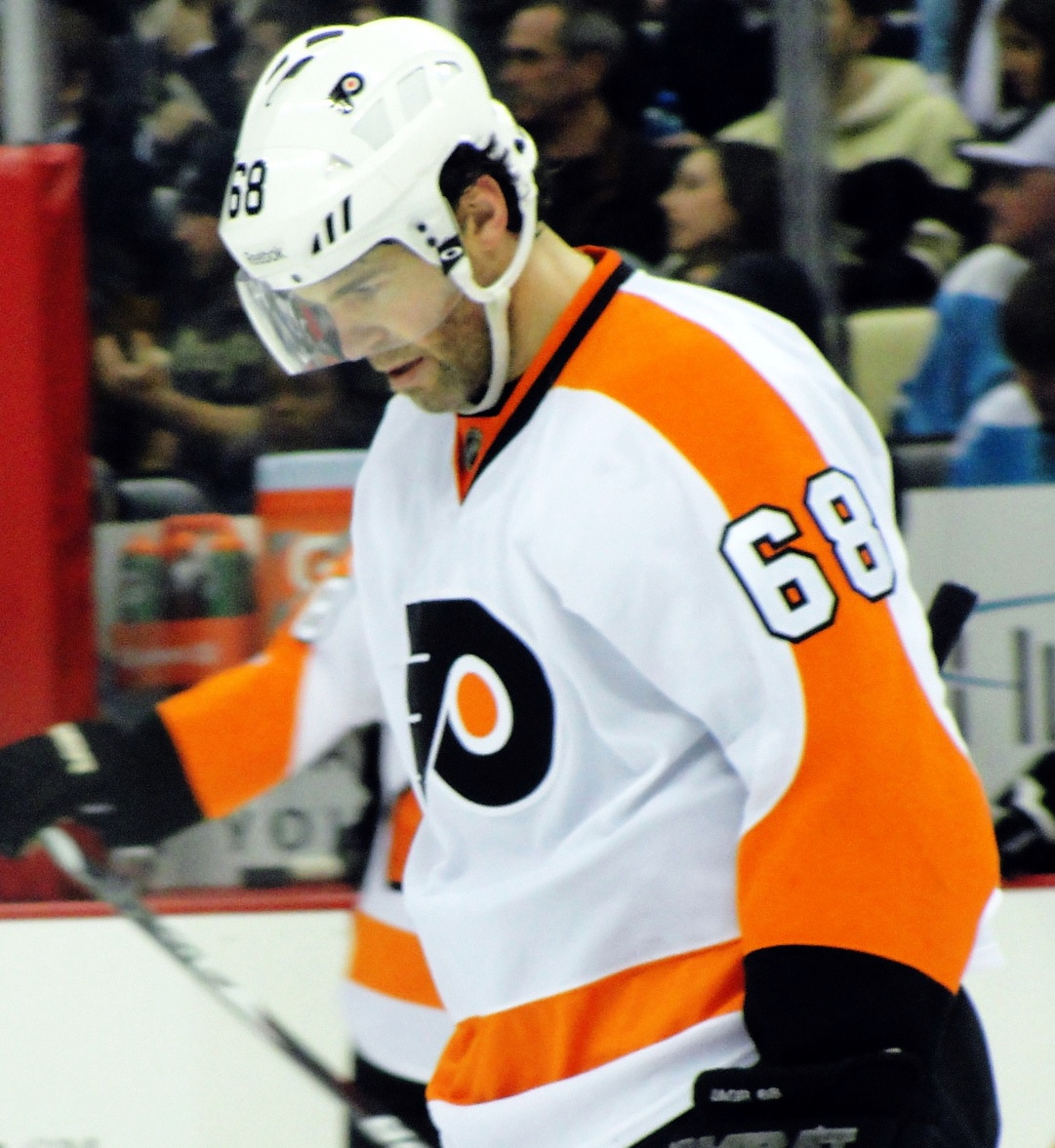 Jaromir Jagr of the Philadelphia Flyers during a December 29, 2011 game against the Pittsburgh Penguins at Consol Energy Center in Pittsburgh, PA. It was Jagr's first trip to Pittsburgh as a member of the Flyers.